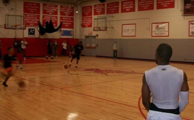 Student athletics is an important part of college life for many at Union County College in Cranford, New Jersey. Students exercise with a friendly game of basketball. (Note: in keeping with college privacy policy, this photo has been digitally edited to prevent identification of persons and protect privacy.)